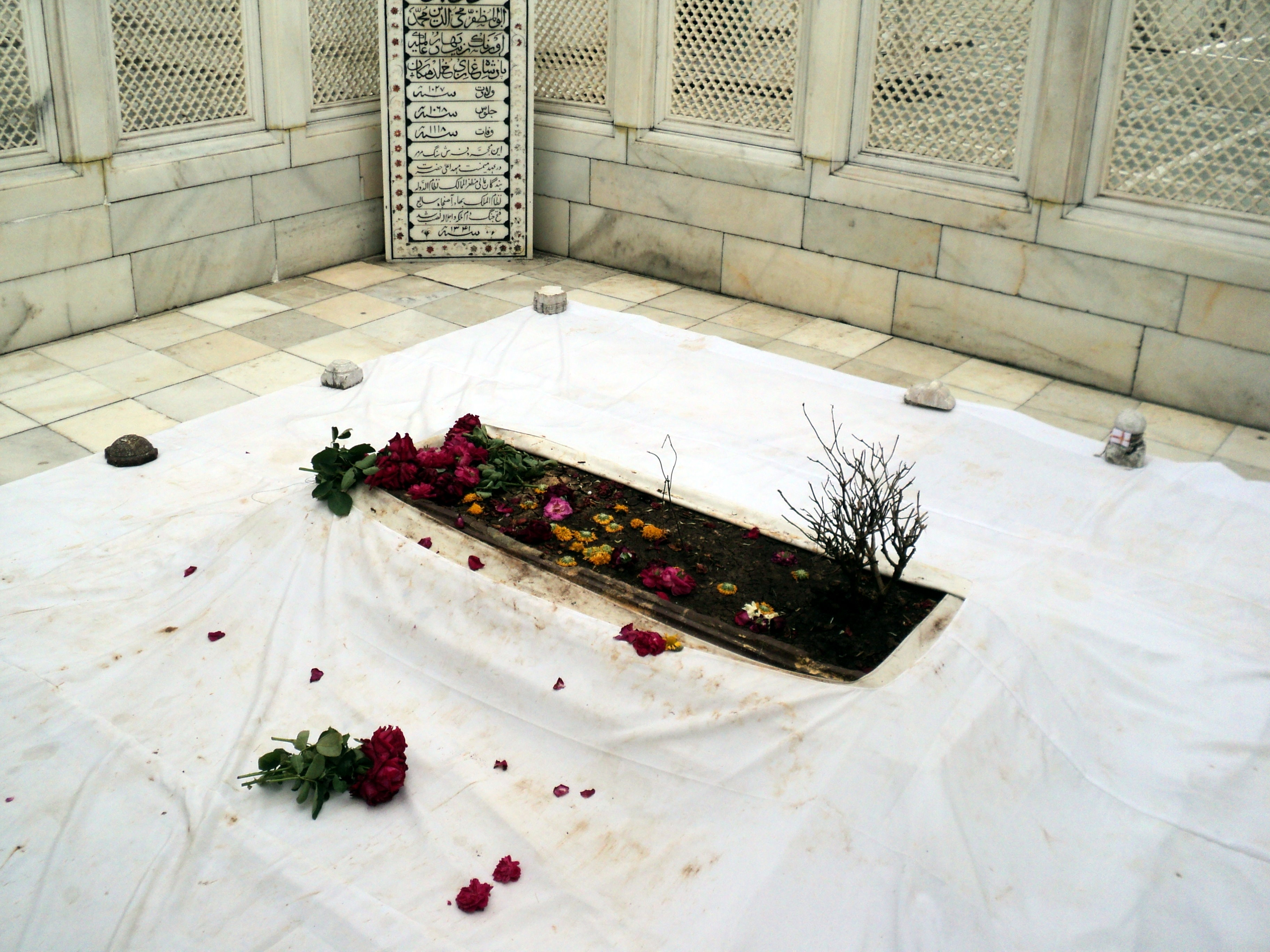 Aurangazeb's tomb in Khuldabad